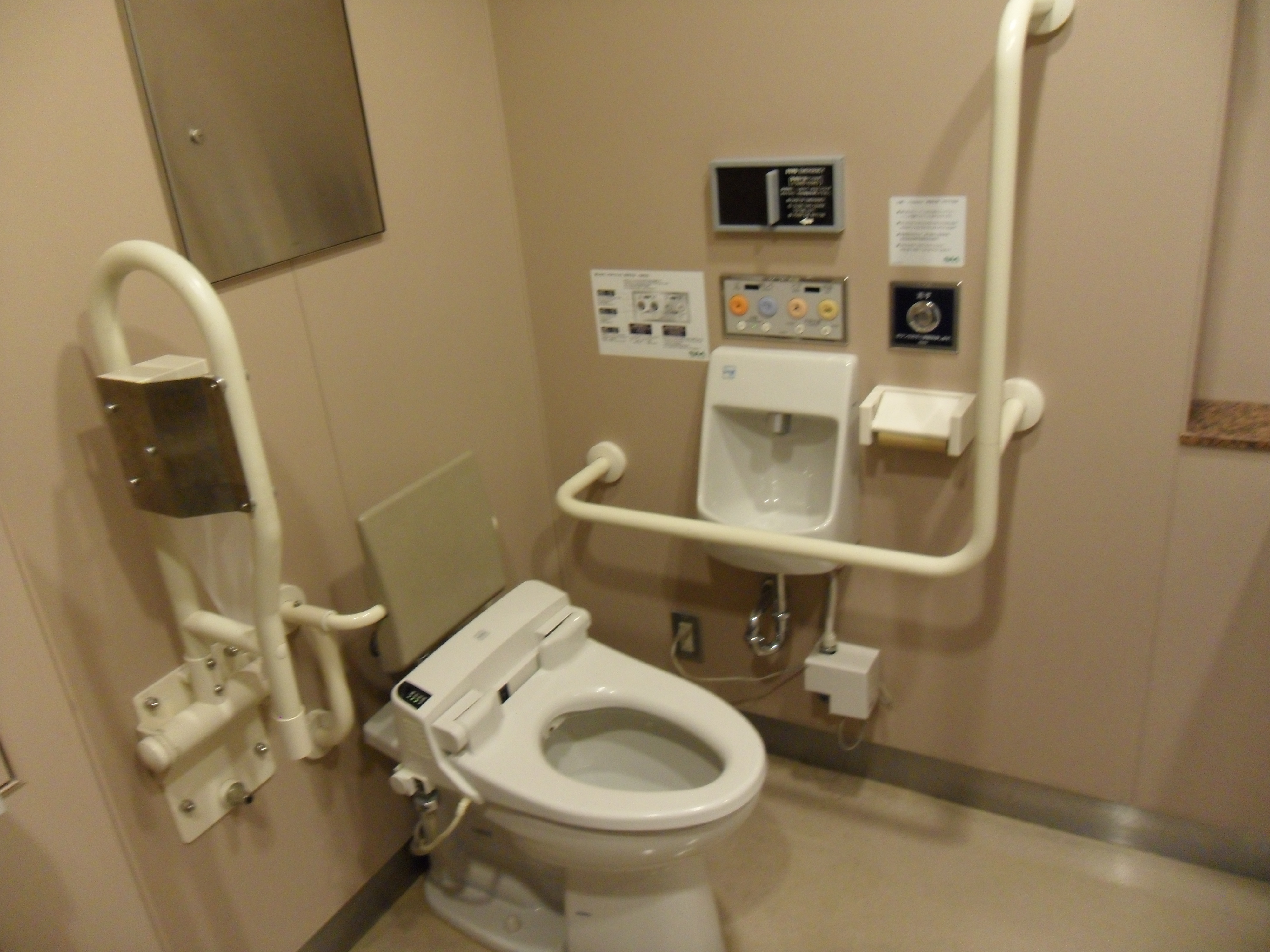 An accessible toilet in Tokyo, Japan.